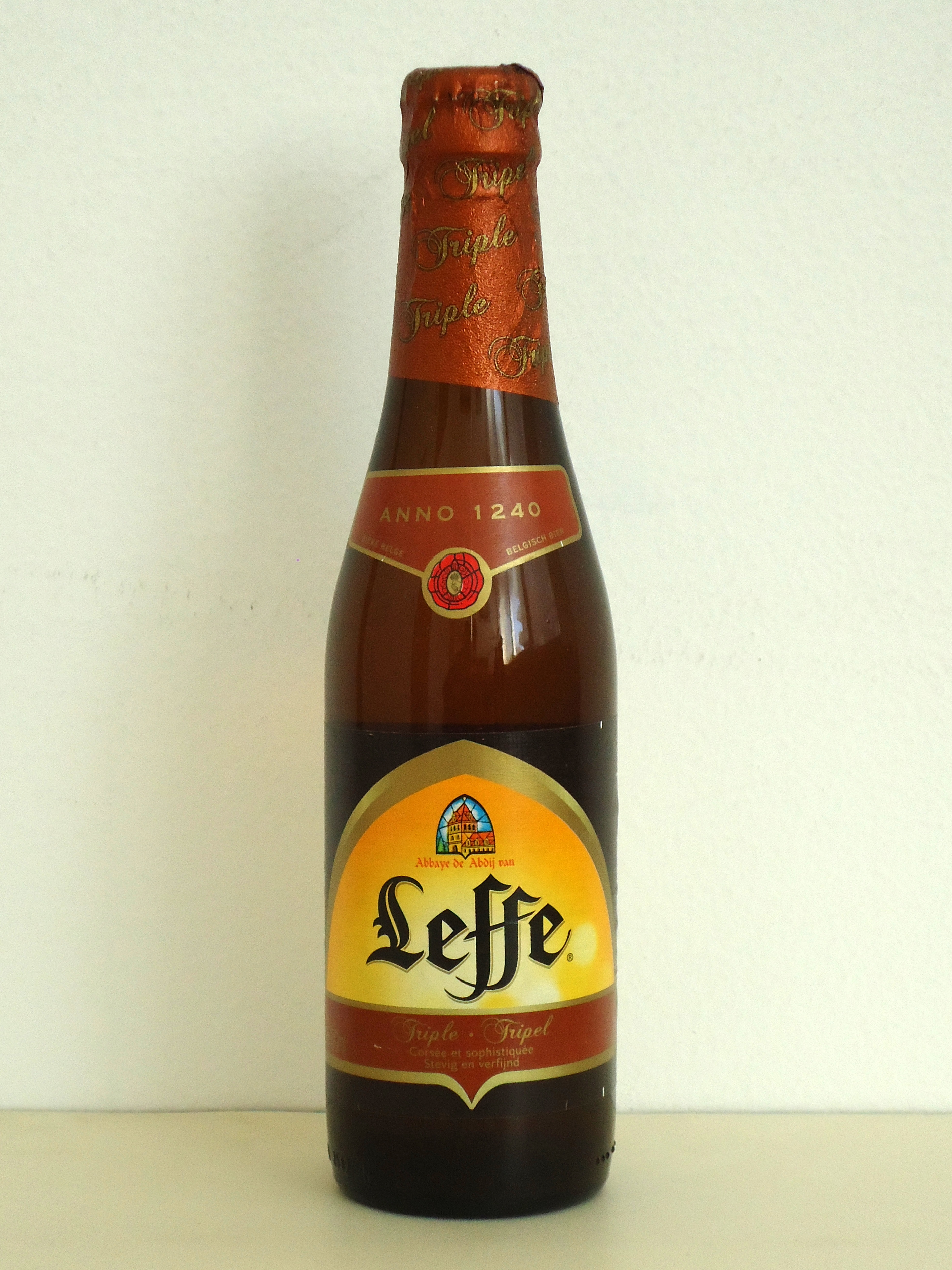 Leffe Tripel